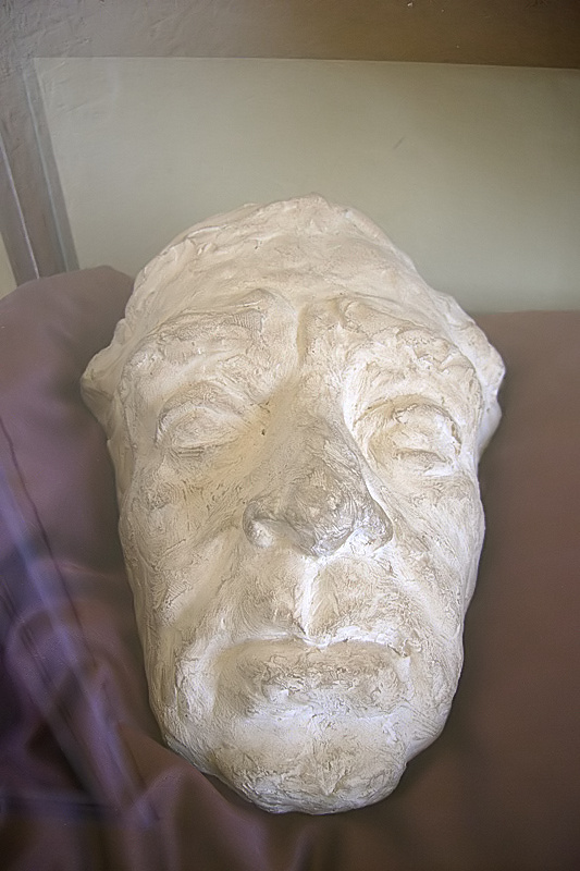 Death-mask of Cavafy, house-museum of Constantine P. Cavafy, Alexandria, Egypt